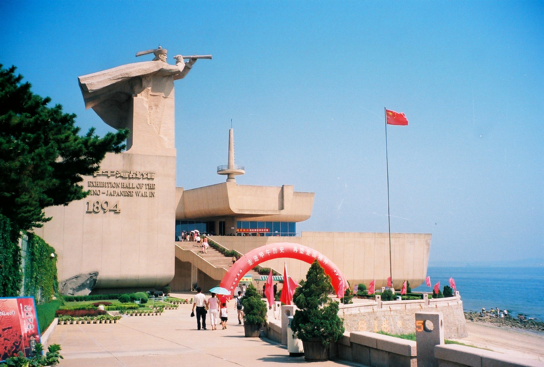 Photograph of the war memorial hall commemorating the First Sino-Japanese War on Liugong Island, Shandong Province, China. Picture taken on August 16, 2005 by Rolf Müller.